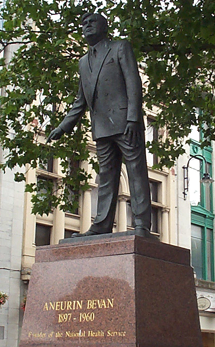 A statue of Aneurin Bevan in Cardiff. I, Kaihsu Tai, took the photograph on 2005-07-07. Copyright © 2005 Kaihsu Tai.